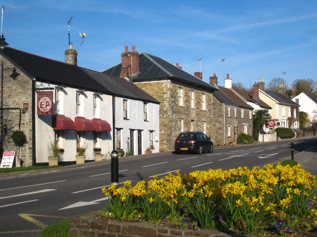 Fore Street Grampound, near to Grampound, Cornwall, Great Britain. Grampound's linear layout is medieval, with long thin burgage plots extending away from the main street, Fore Street (A390). Most of the village core is a Conservation Area, and there are many listed buildings on Fore Street. Its name is from the Norman French grand (great) and pont (bridge) and it was an important crossing point on the River Fal. It was notorious as a rotten borough, returning two MPs to the House of Commons from the reign of Edward VI until it was disenfranchised in 1821, after a corruption scandal that led to the conviction and imprisonment of several people for bribery.